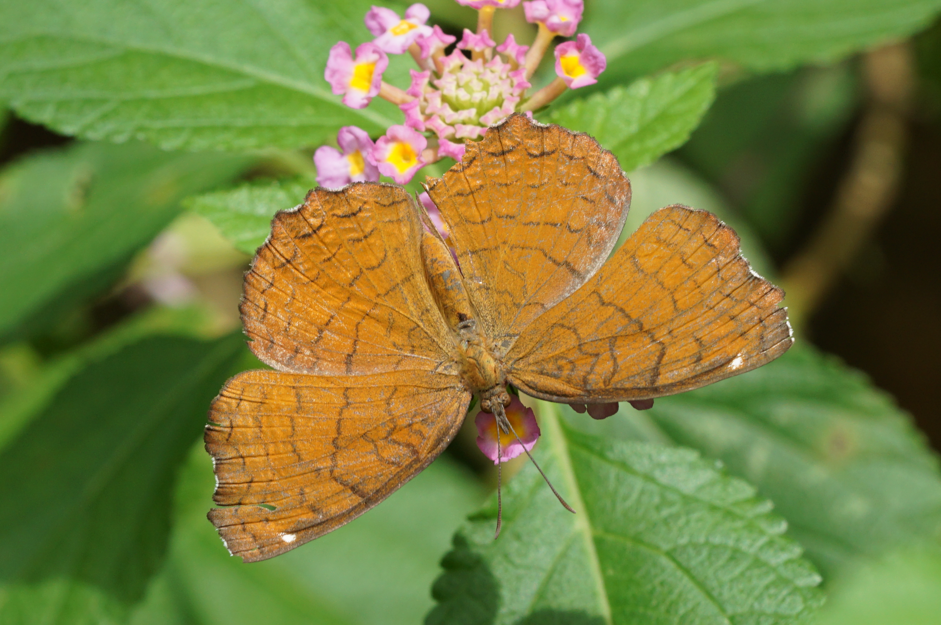 Angled Castor, Kerala, India.